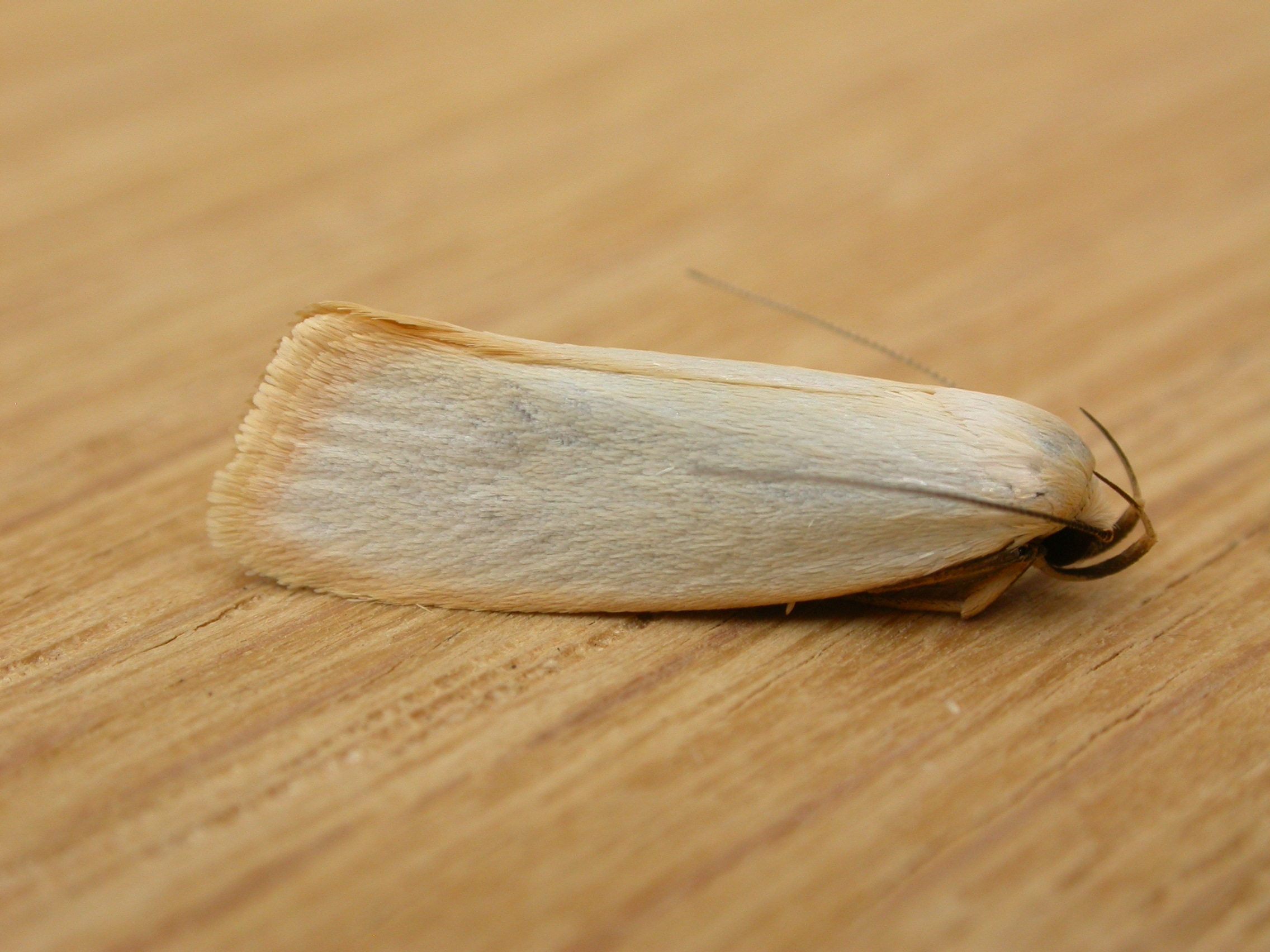 Xylorycta assimilis, Aranda, ACT, Australia.